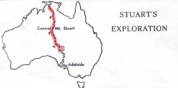 Map of the explorer's route in Australia. This image is of Australian origin and is now in the public domain because its term of copyright has expired. According to the Australian Copyright Council (ACC), ACC Information Sheet G023v16 (Duration of copyright) (Feb 2012). Type of materialCopyright has expired if ... A Photographs or other works published anonymously, under a pseudonym or the creator is unknown:taken or published prior to 1 January 1955 B Photographs (except A):taken prior to 1 January 1955 C Artistic works (except A & B):the creator died before 1 January 1955 D Published editions1 (except A & B):first published more than 25 years ago E Commonwealth or State government owned2 photographs and engravings:taken or published more than 50 years ago and prior to 1 May 1969 1 means the typographical arrangement and layout of a published work. eg. newsprint. 2owned means where a government is the copyright owner as well as would have owned copyright but reached some other agreement with the creator. When using this template, please provide information of where the image was first published and who created it.